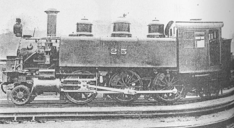 Gyeongbu Railway Prairie-type steam locomotive No. 25